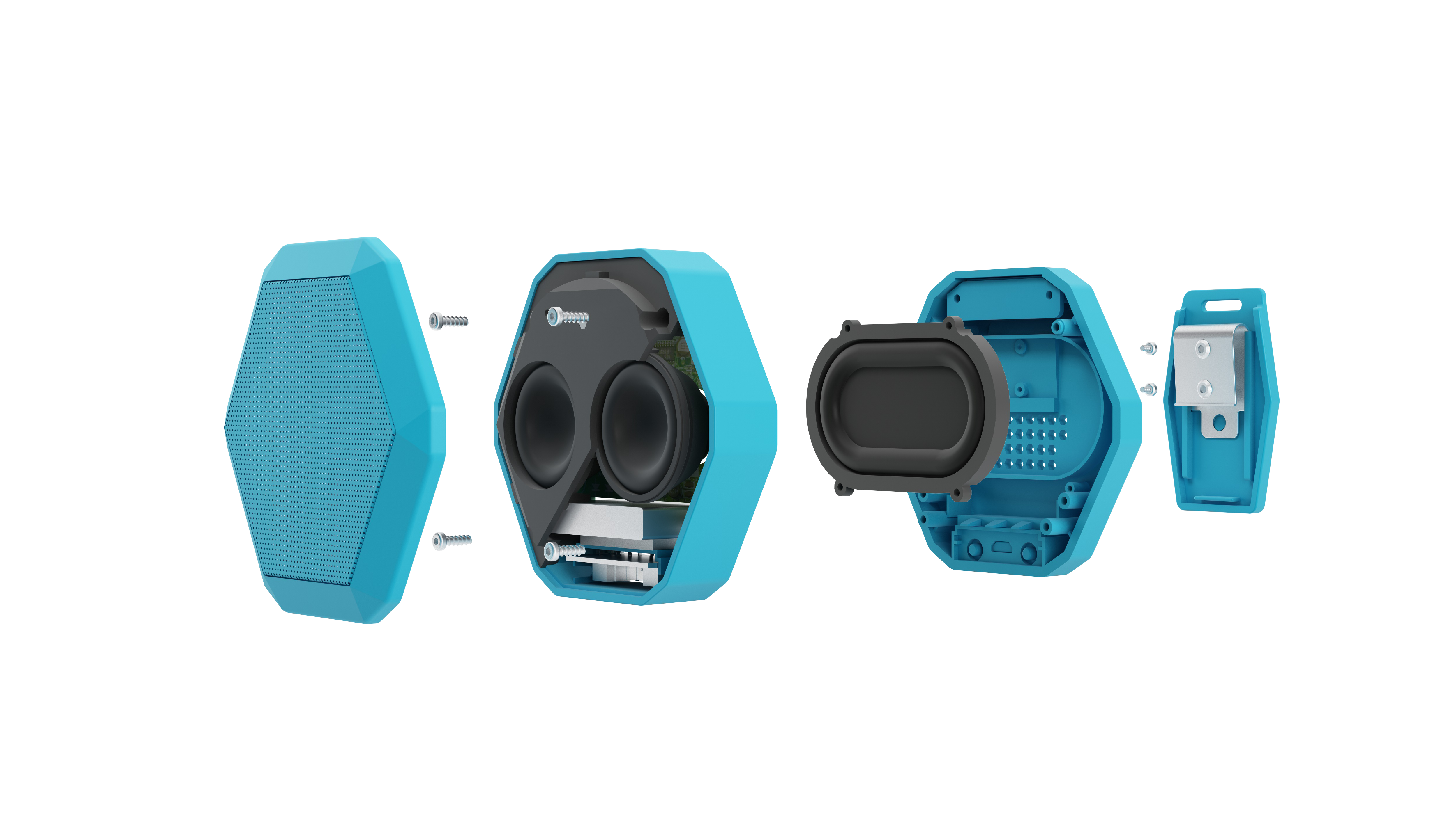 Exploded view of the Boombot REX portable speaker features dual drivers and a passive radiator.